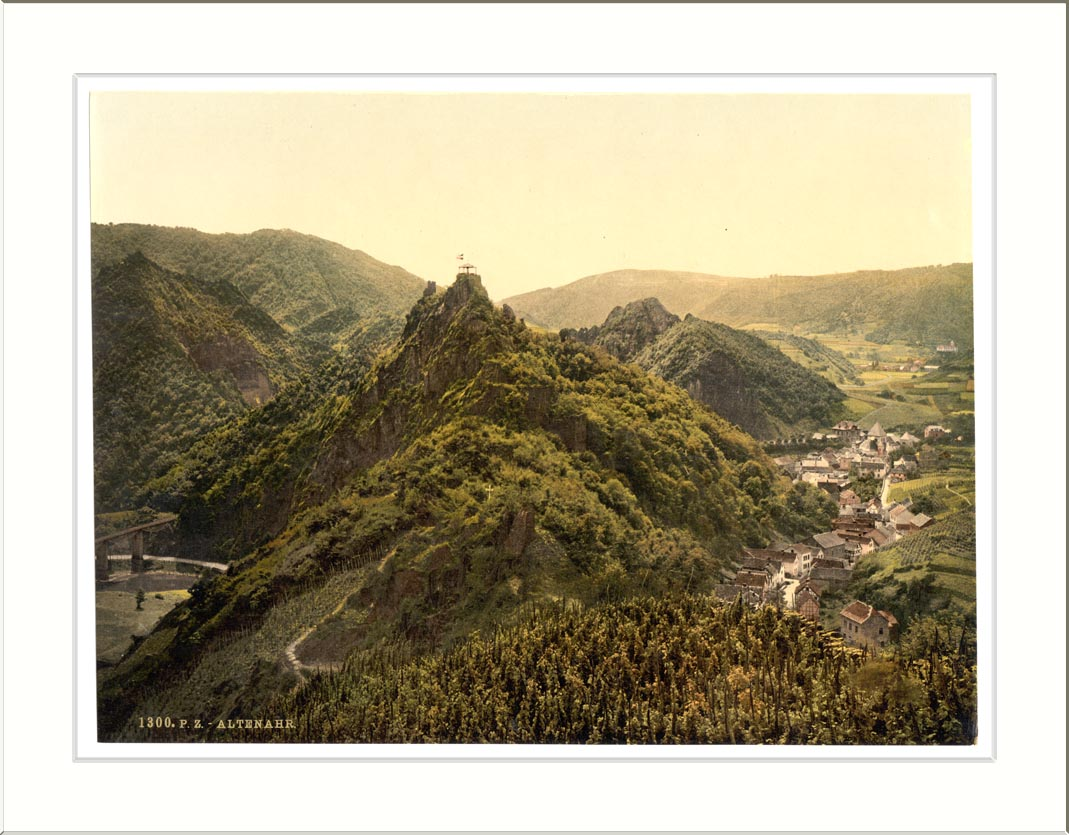 Altenahr and the White Cross the Rhine Germany